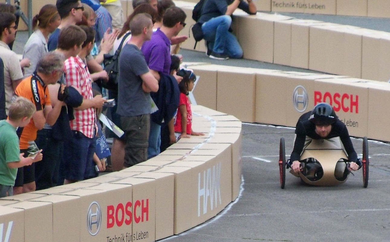 Scene of the engineering competition "Akkuschrauberrennen", which takes place every year in Hildesheim (Germany).